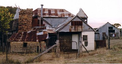 Mountain View Homestead and General Store